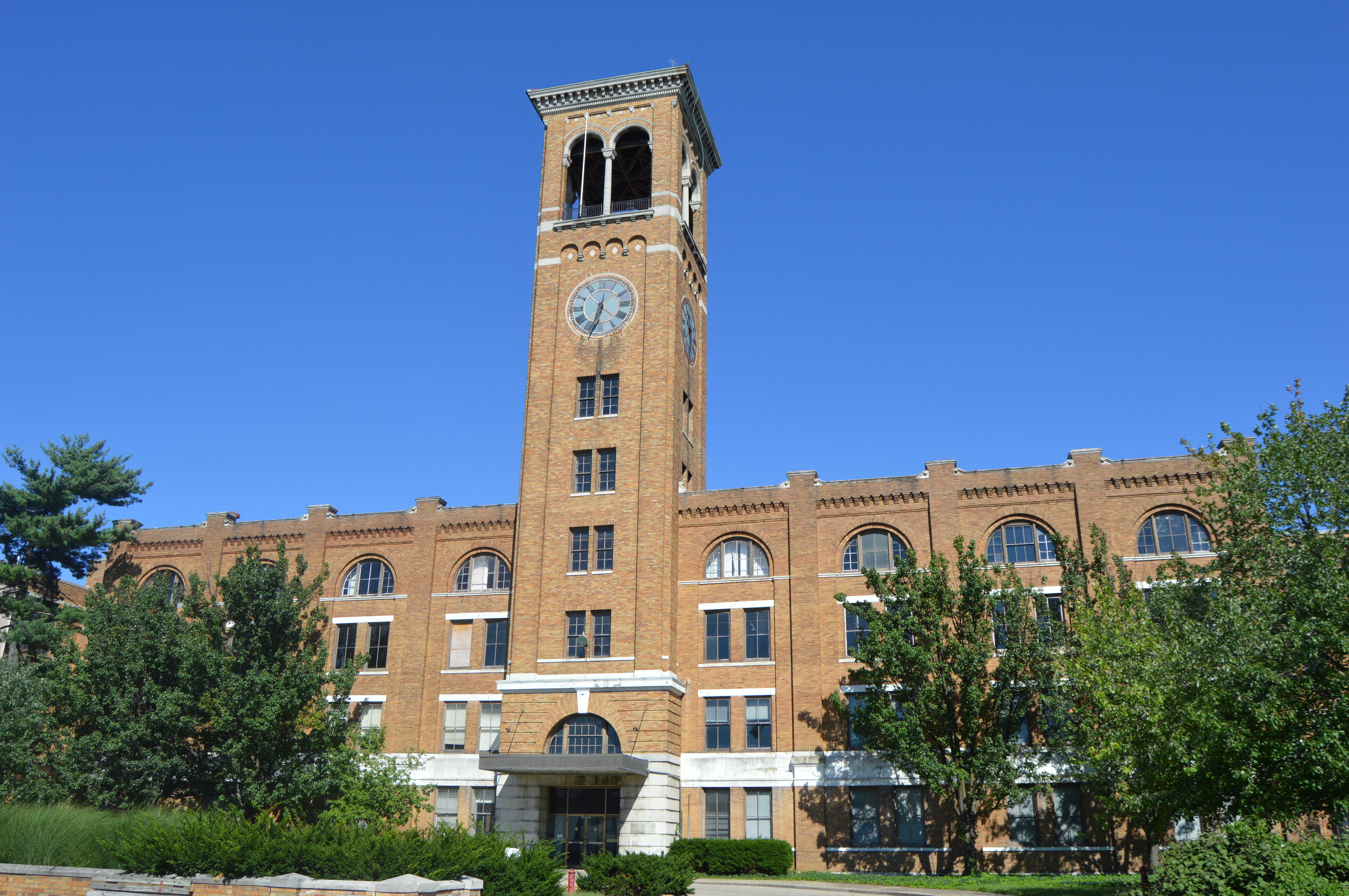 Main entrance and tower section of the United States Playing Card Company Complex, located at 4590 Beech Street in Norwood, Ohio, United States. Built as a factory for the United States Playing Card Company, it is listed on the National Register of Historic Places.